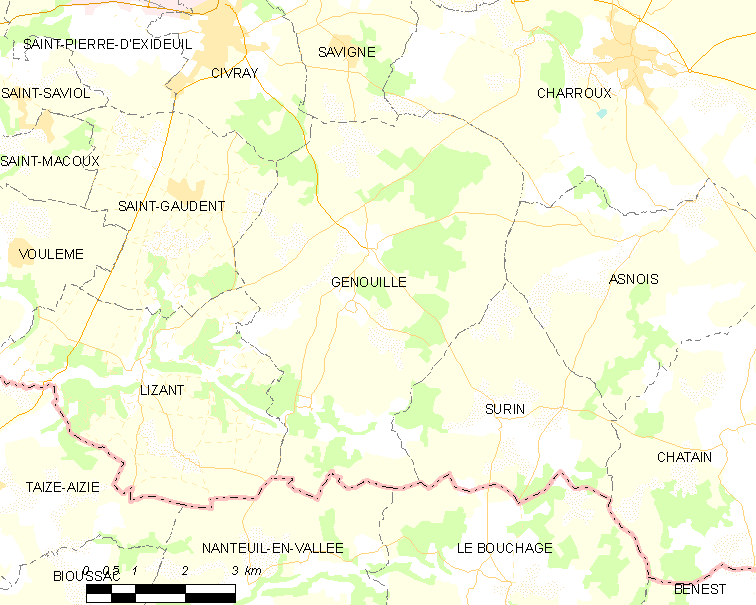 Map of French municipality Genouillé